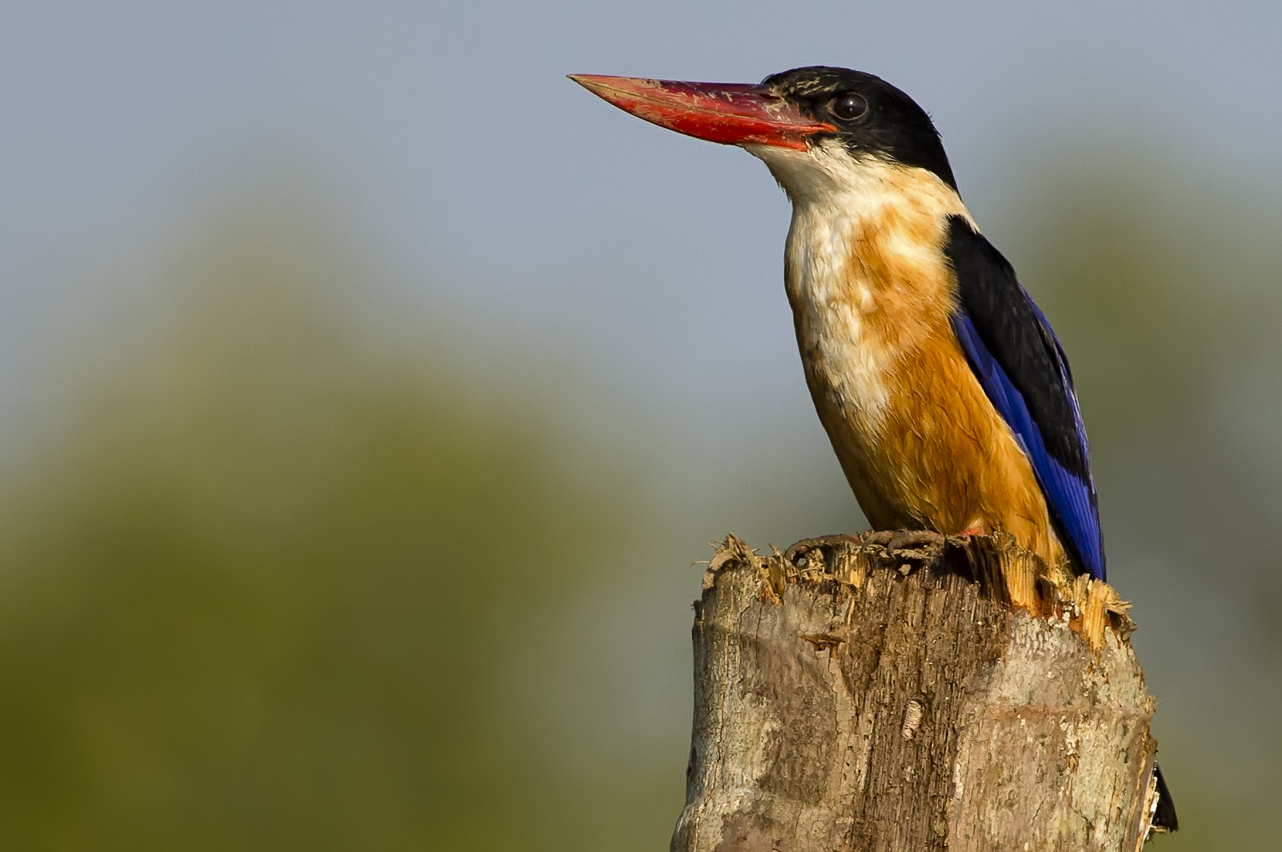 A Black-capped Kingfisher at Zuari River, Goa, India.